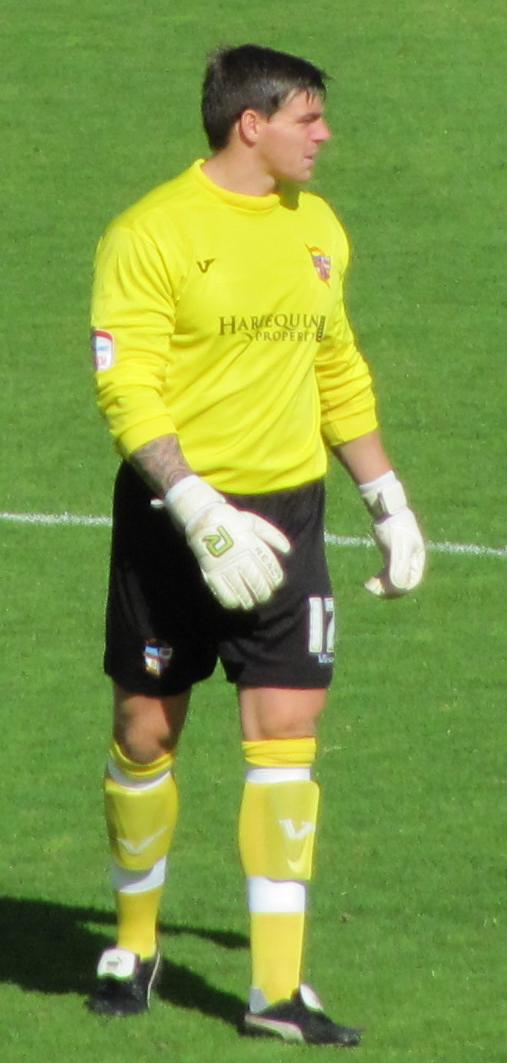 Stuart Tomlinson